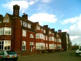 Front view of Hull University Scarborough, North Yorkshire